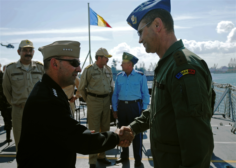 Ştefan Dănilă, the Romanian Chief of General Staff, right, shake hands after watching a live tactical demonstration from a multinational maritime Special Operations Task Group Forces during the Jackal Stone 11 Exercise on Sep. 20,2011.